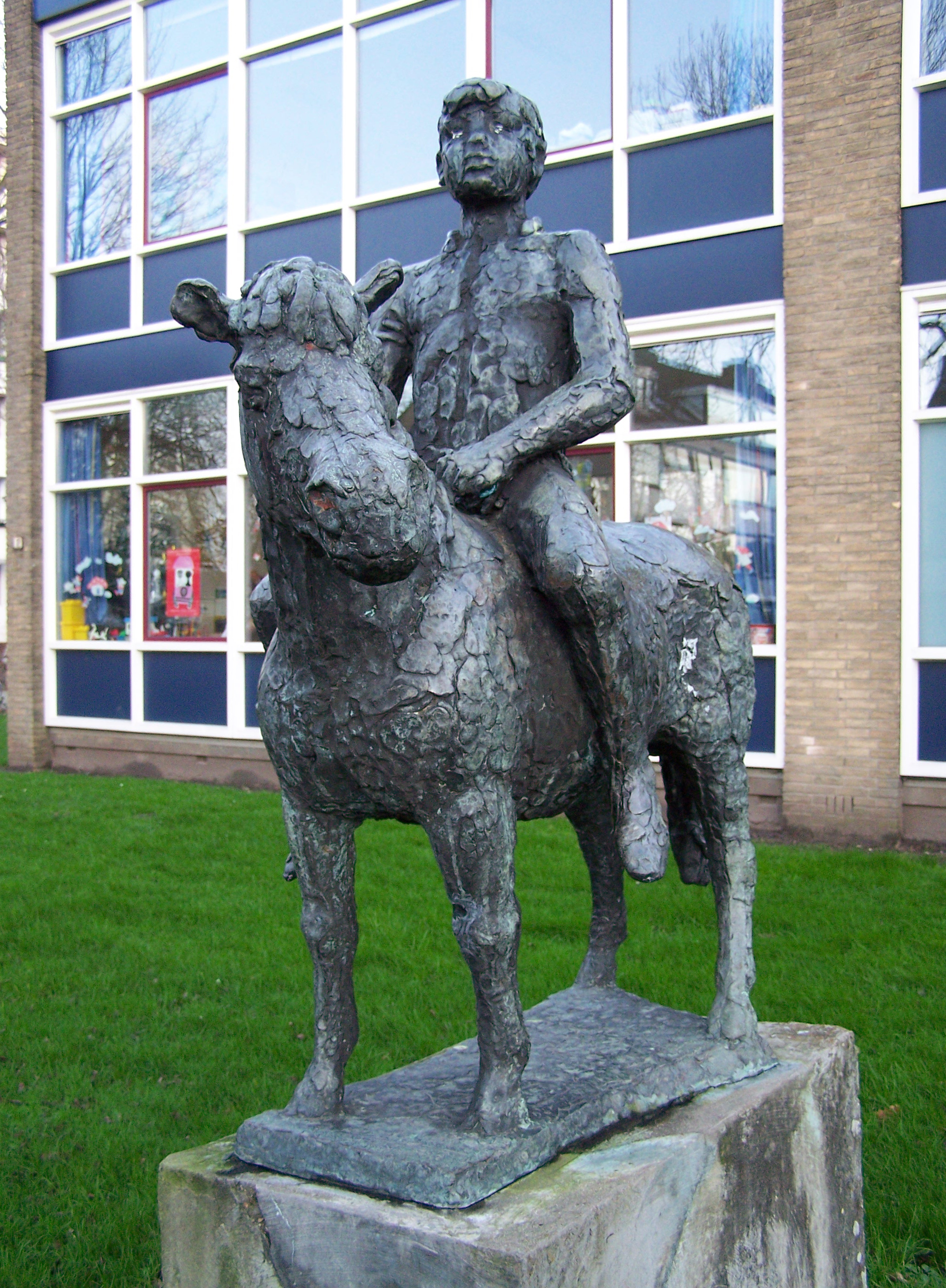 Sculpture "Pony met kind" made by Ek van Zanten in 1965. Placed at the school at the Wevelaan in Tuindorp, Utrecht